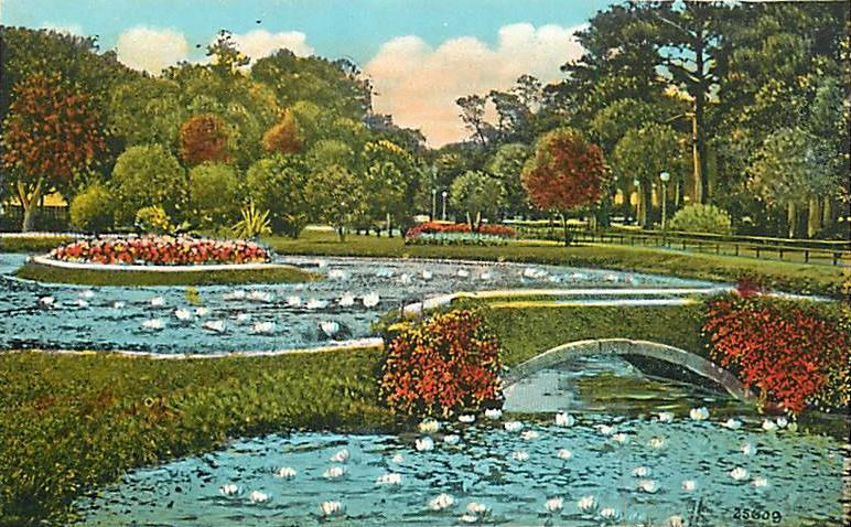 Postcard image of Lily ponds at Riverside Park in Jacksonville, Florida.